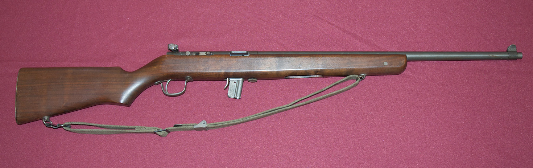 Reising Model 65 Training Rifle .22 Caliber